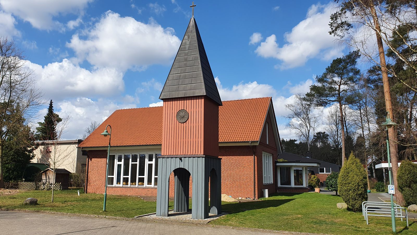 Martin-Luther-Kirche in Holm-Seppensen